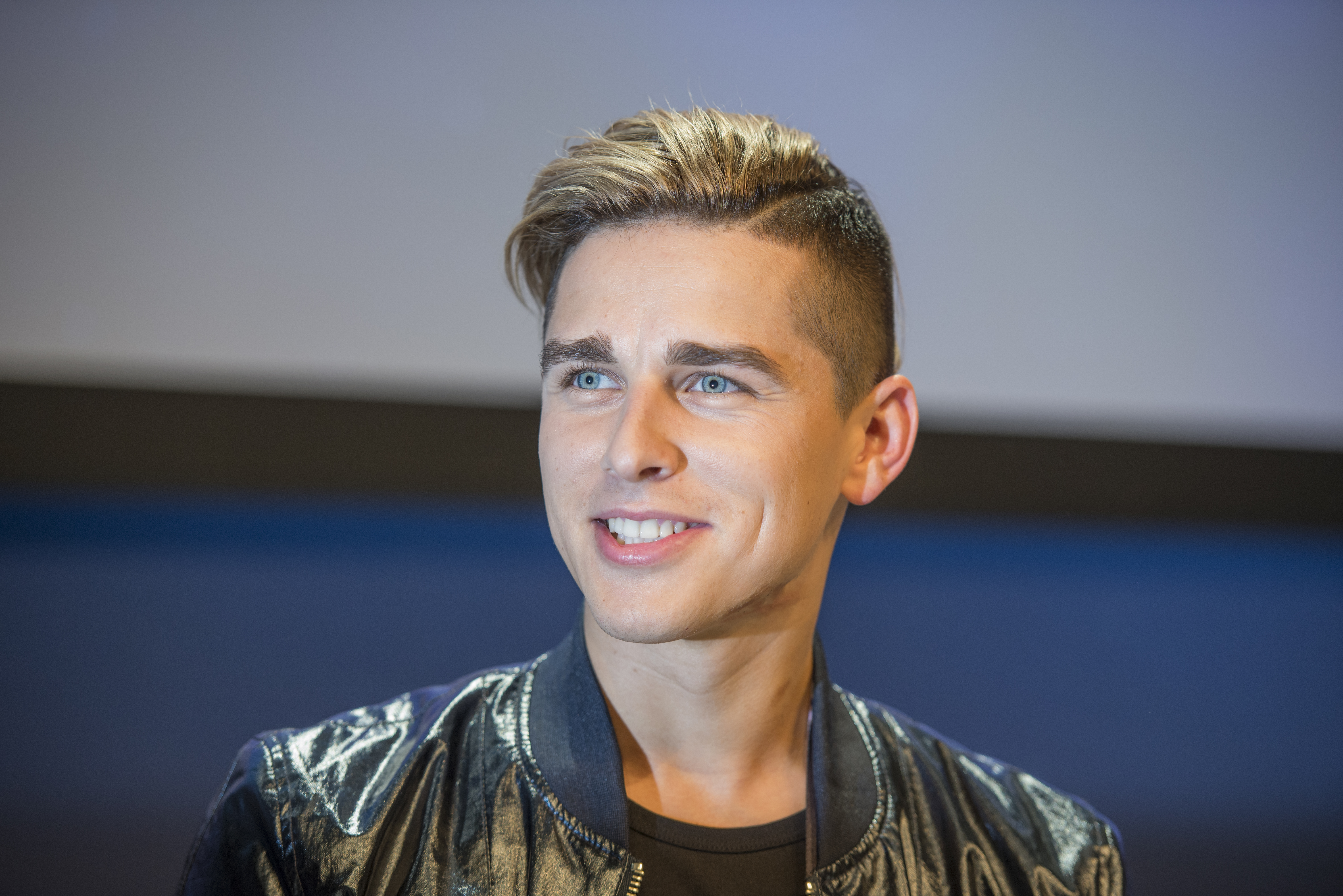 Donny Montell at a Meet & Greet during the Eurovision Song Contest 2016 in Stockholm. (Help translate this text)